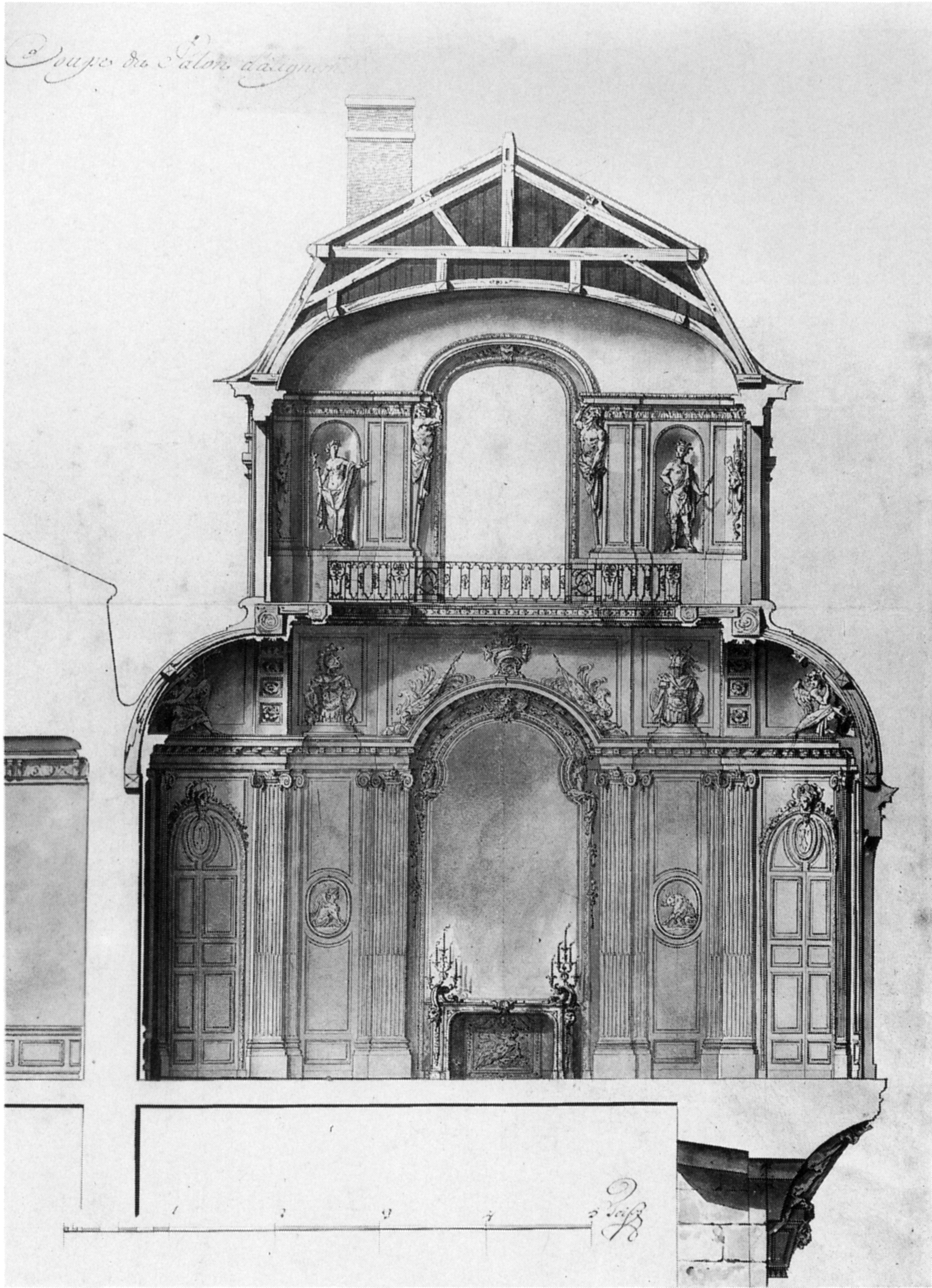 Preliminary design showing an architectural section of the Salon d'Oppenord of the Palais-Royal in Paris. Located at the west end of the main wing of the part of the Palais-Royal formerly known as the Palais Brion, the room had oval ends, one of which pierced the external wall, projecting over the rue de Richelieu and attracting much attention. The room was also referred to as as the Laternon, because of its top lighting, or the Salon d'Angle, because of its location at the right-angle intersection of the corps de logis with the Gallerie d'Énée. It is readily apparent on the 1739 Turgot map of Paris (see File:Palais-Royal on the map of Turgot 1739 - Kyoto U.jpg). This section of the Palais-Royal was demolished c. 1790 to make way for the construction of the theatre which later became the Comédie-Française.